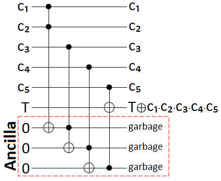 An example of ancilla bits being used to construct a large gate out of smaller gates. A NOT gate with 5 controls is created out of 4 Toffoli gates (NOT gates with 2 controls) and 3 ancilla bits. The ancilla bits are trashed in the process (because no uncomputation is done).